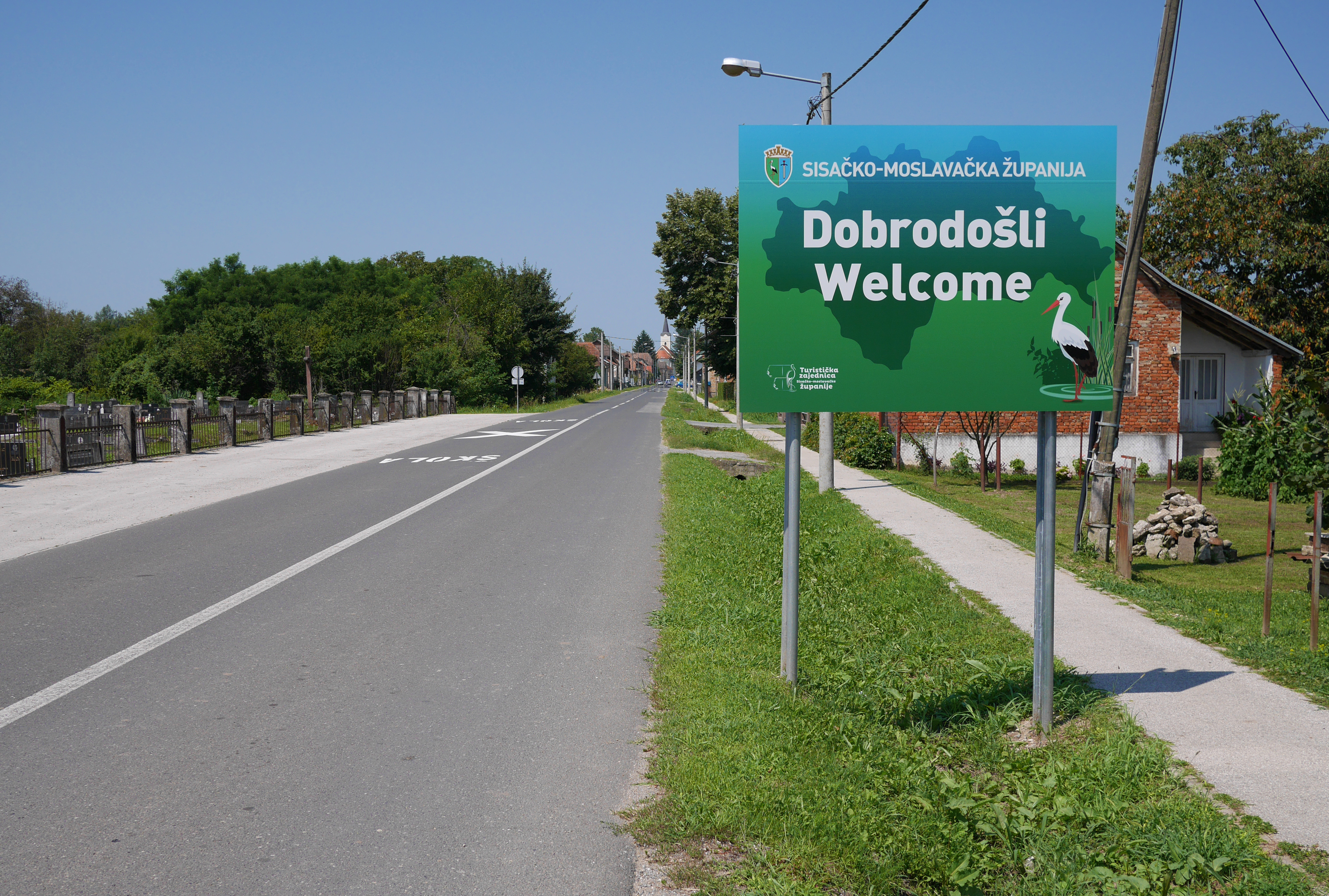 Sisak-Moslavina County, Hrvatska Dubica, Croatia